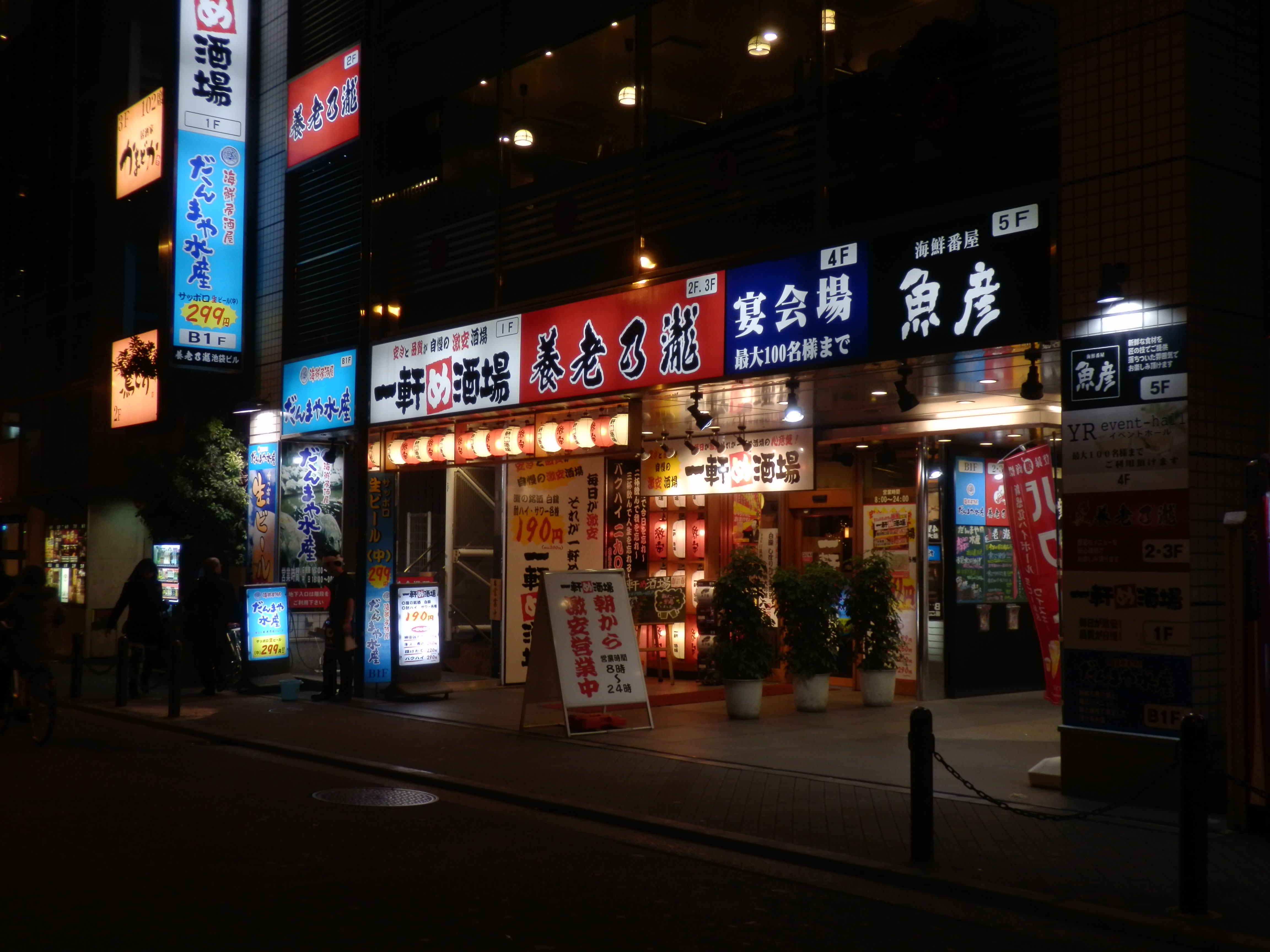 Yoronotaki (Japanese bar chain)